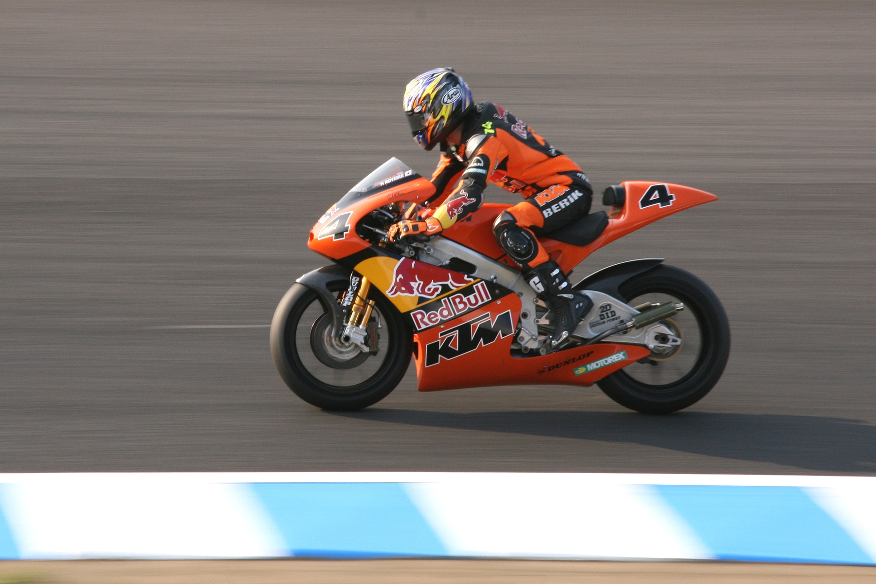 Hiroshi Aoyama, 250cc class rider, on MotoGP2007年MotoGP（日本GP）GP250クラス予選での青山博一